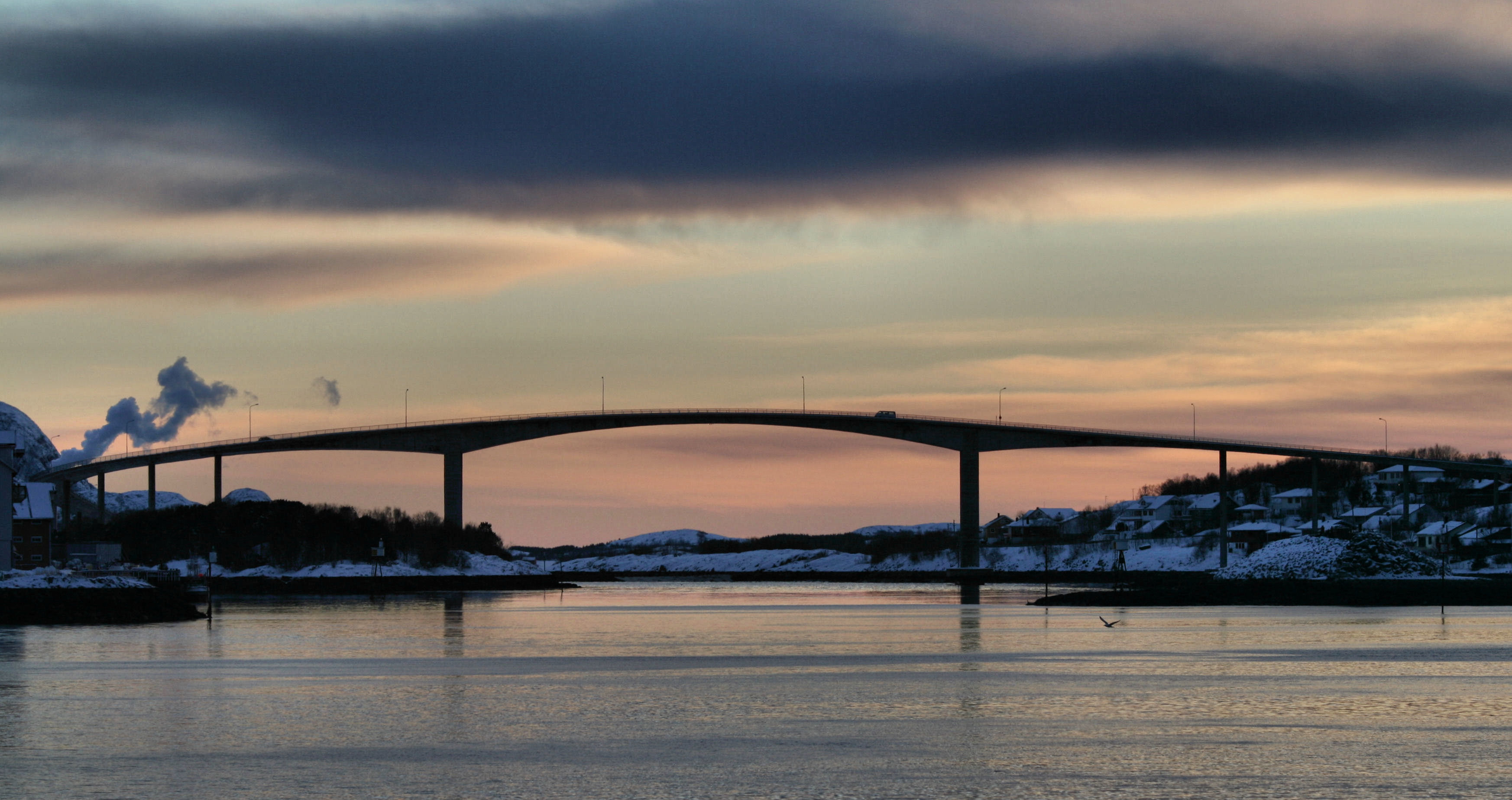 Bridge to the island of Torget, march 2006. Brønnøysund, Norway